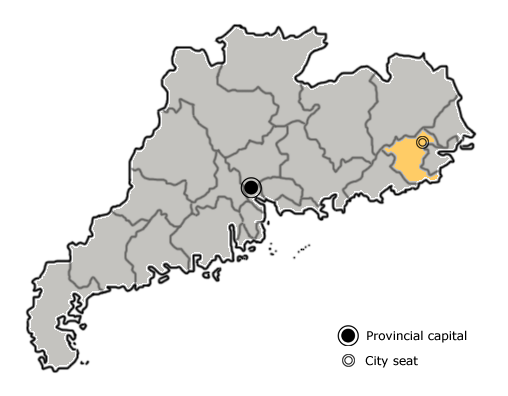 The prefecture-level city of Jieyang is highlighted on this map of Guangdong province, People's Republic of China.